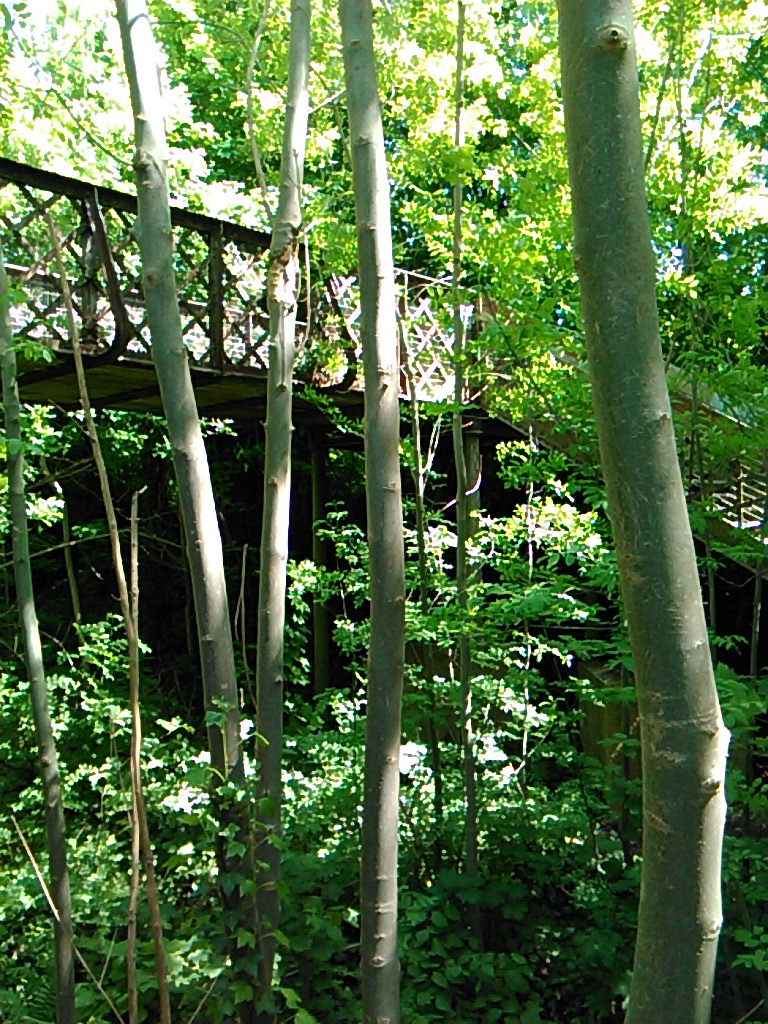 Railway bridge over the disused Spencer Road Halt railway station in Croham.